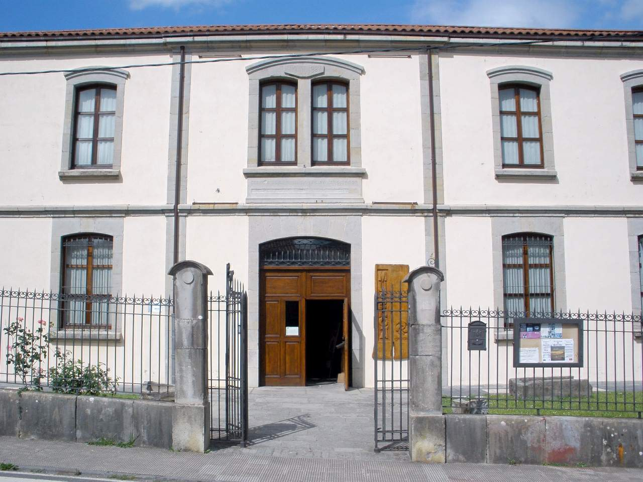 Museo Etnográfico de Arceniega (Álava)